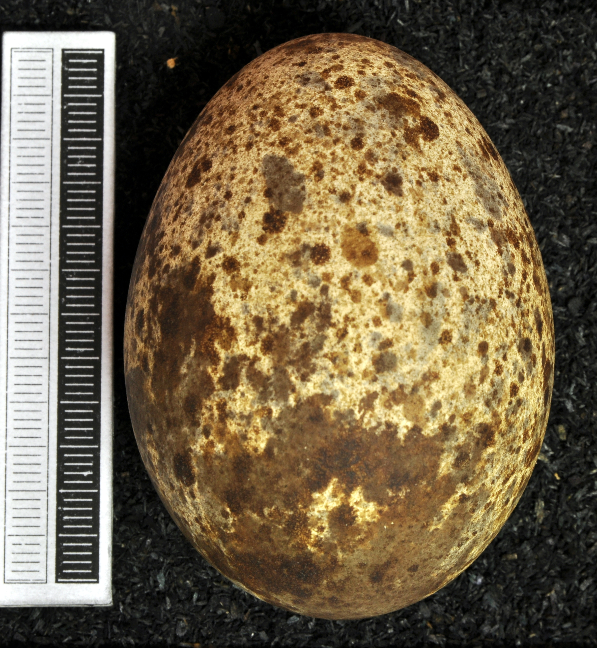 Osprey Pandion haliaetus , egg, Coll. Museum Wiesbaden